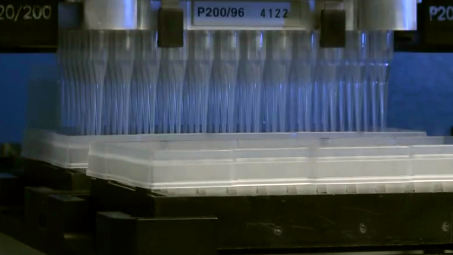 Beckman Coulter BioMek FX dual arm with P200/96-multichannel pipetting head and Span-8 pipetting pod Automation workstation This image is part of the "Profile of Sonja Best, NIAID Researcher and PECASE Award Winner" video by NIAID.